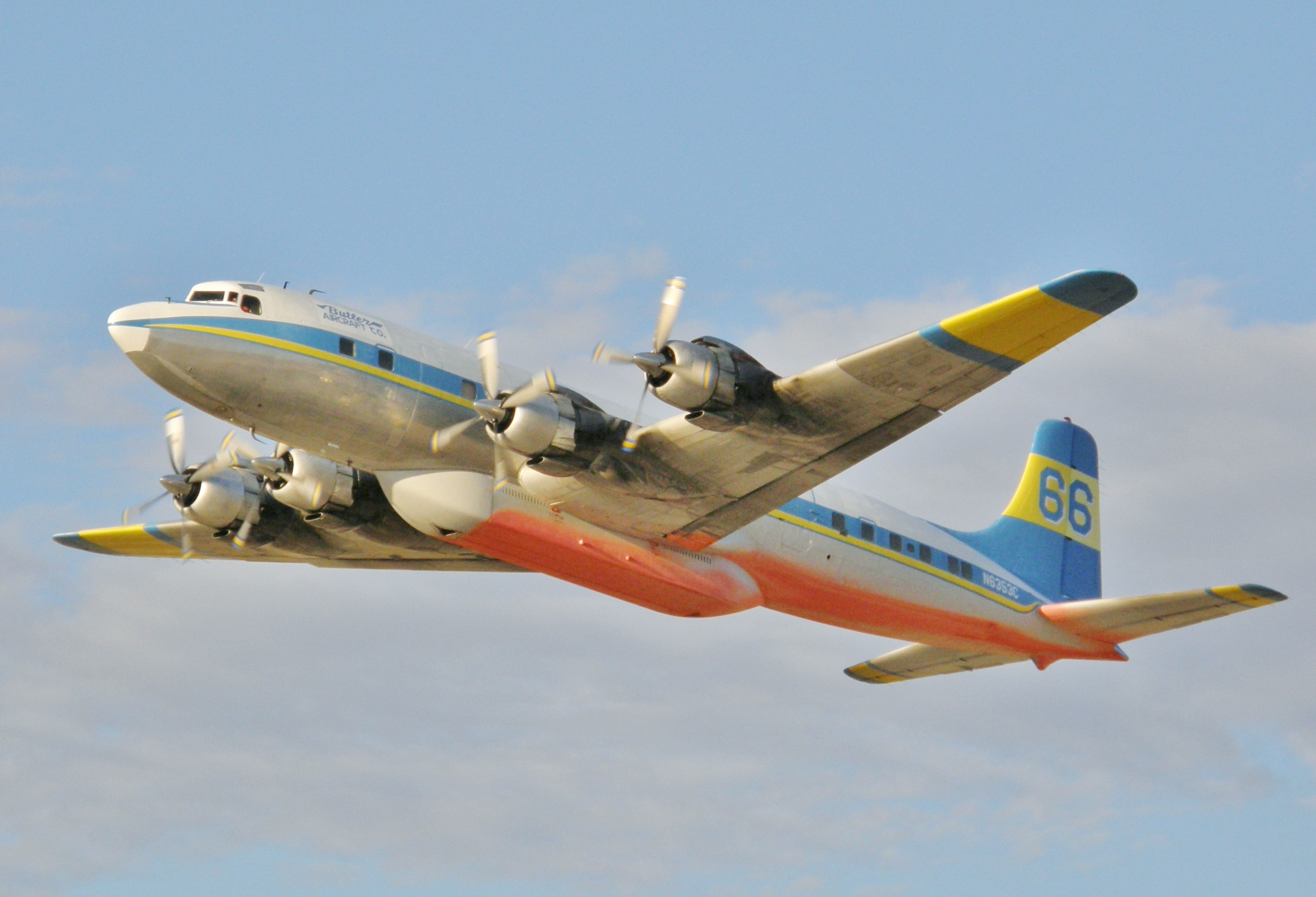 Butler Aircraft Services DC-7 Tanker 66 takes off from Fox Field, Lancaster, California, during the October 2007 Southern California Wildfires.